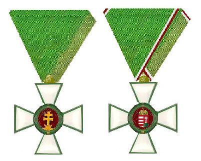 The Order of Merit, Hungary, in 1945 and 2000